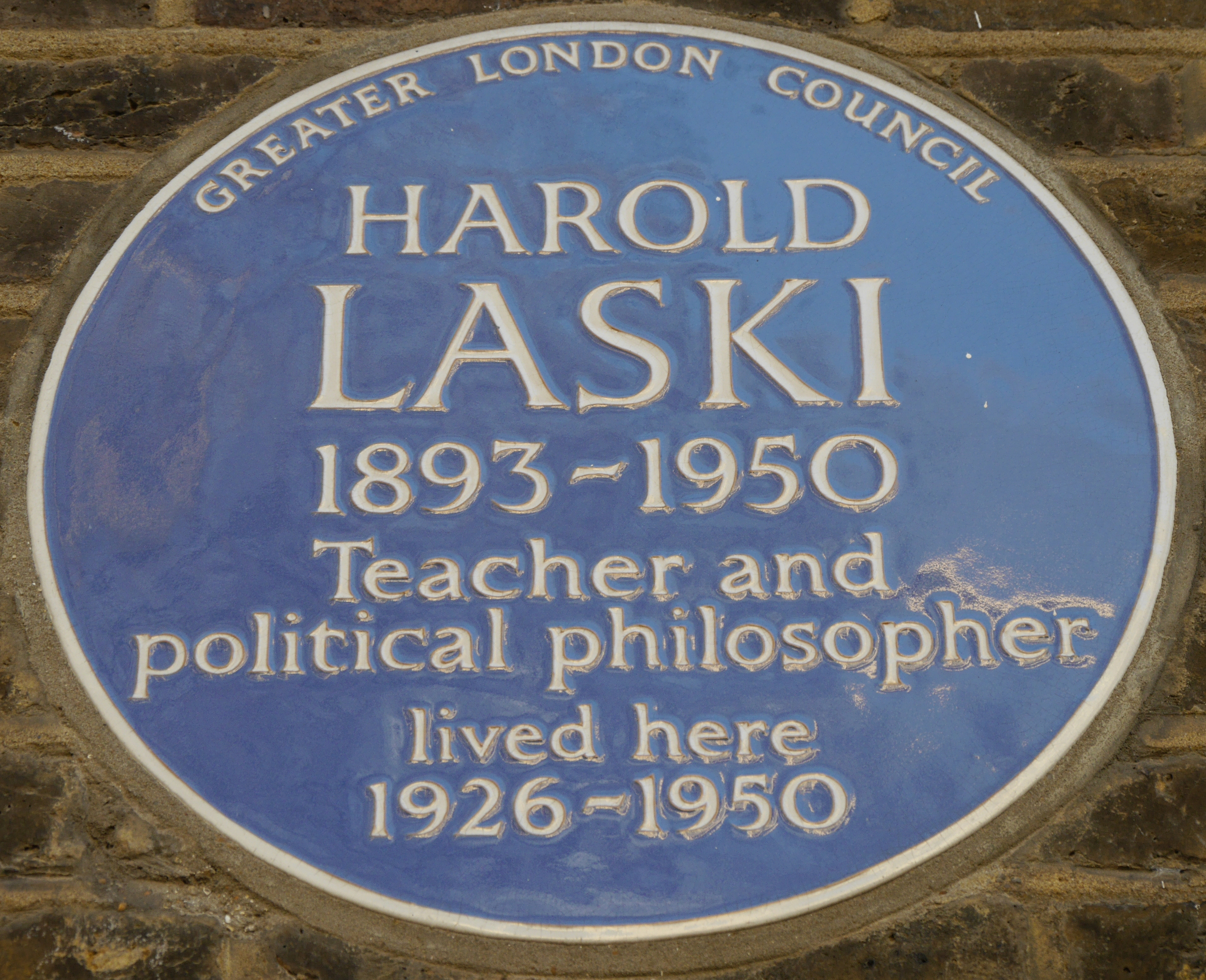 Blue plaque erected in 1974 by Greater London Council at 5 Addison Bridge Place, West Kensington, London W14 8XP, London Borough of Hammersmith and Fulham